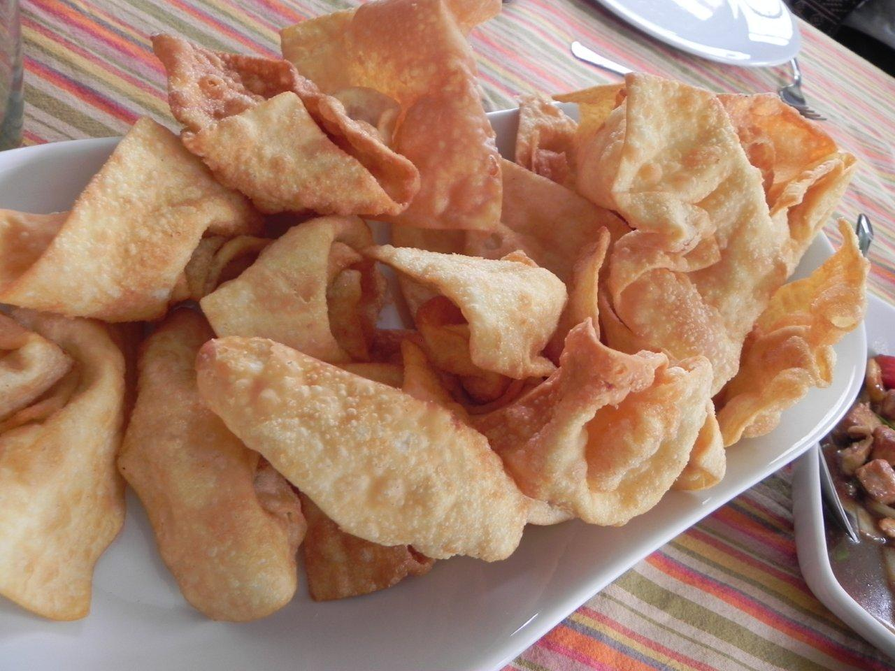 Wantan frito